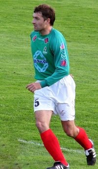 Srdjan Gasic playing for Breidablik.